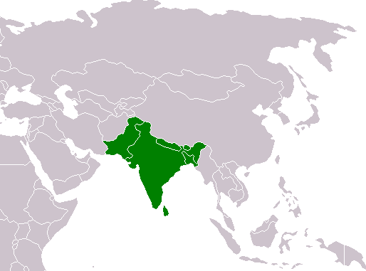 Locater map for South Asia with states highlighted